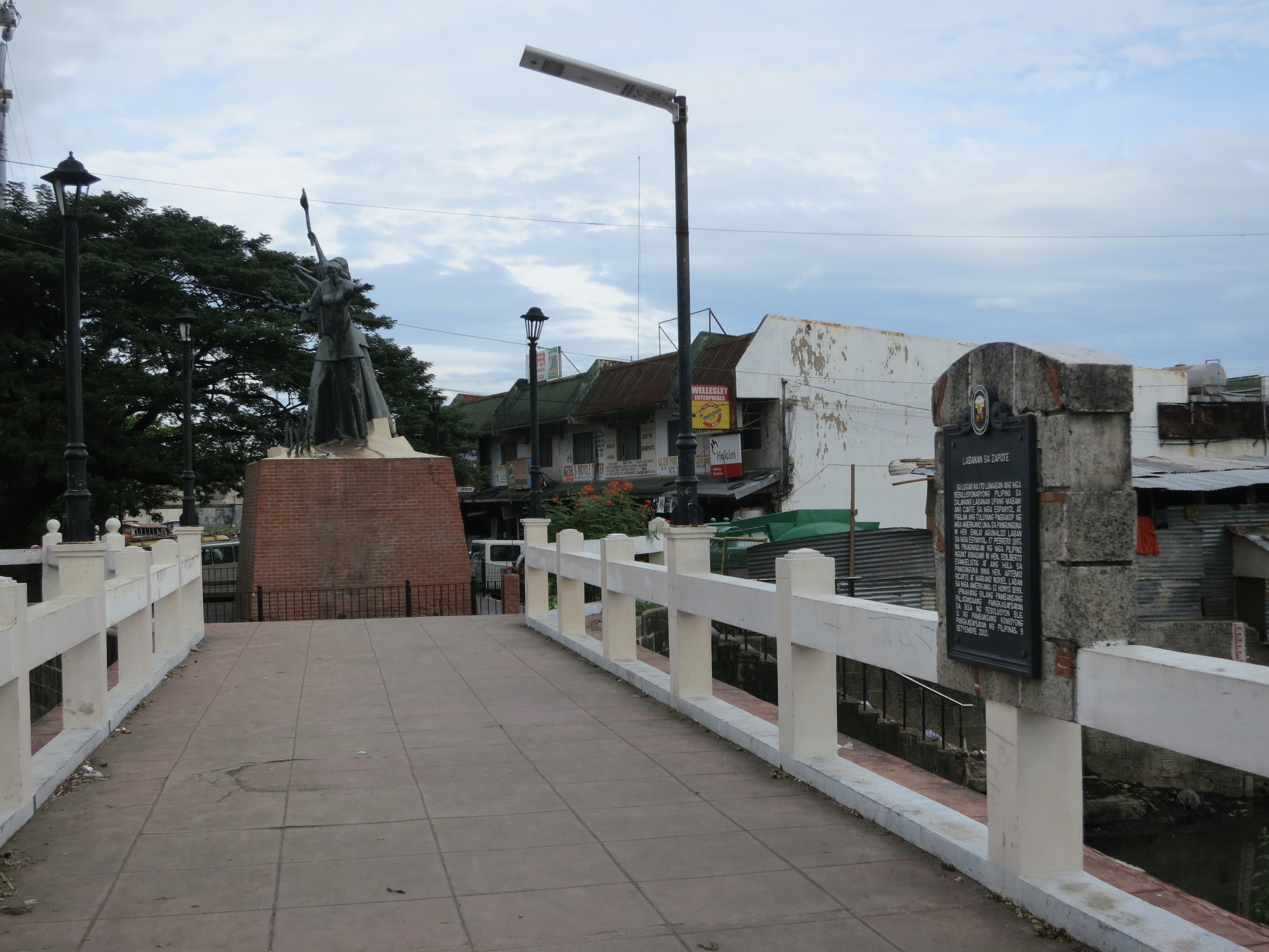 Zapote Bridge looking northward and showing a monument with a sculpture depicting three women by Eduardo Castrillo and a historical marker.